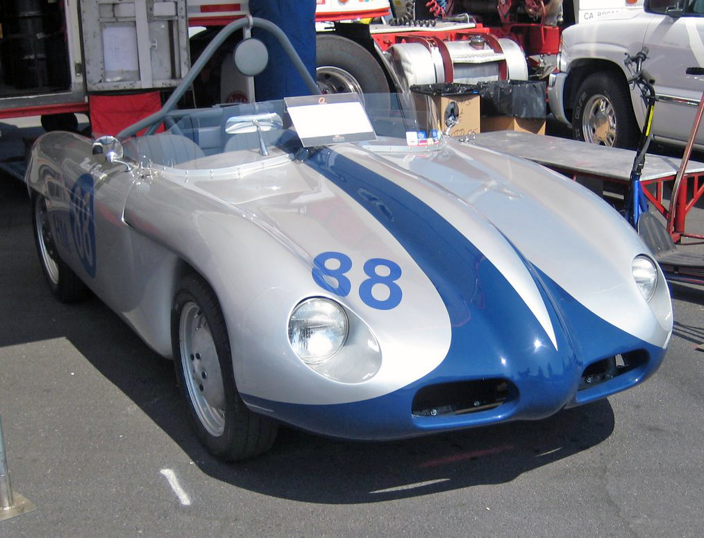 1954 Devin Panhard 850cc at the Laguna Seca Historics, 2009.